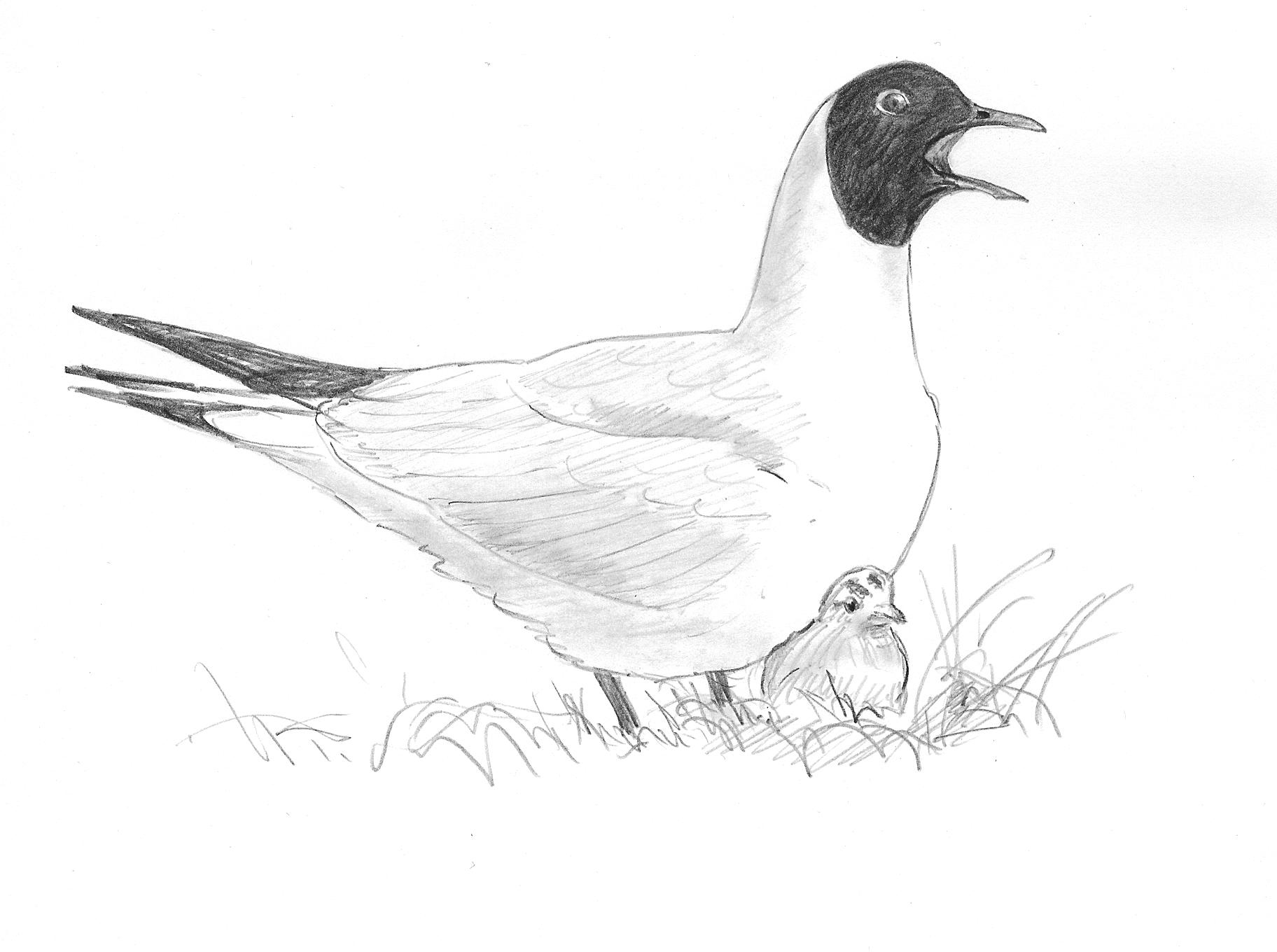 Chroicocephalus ridibundus